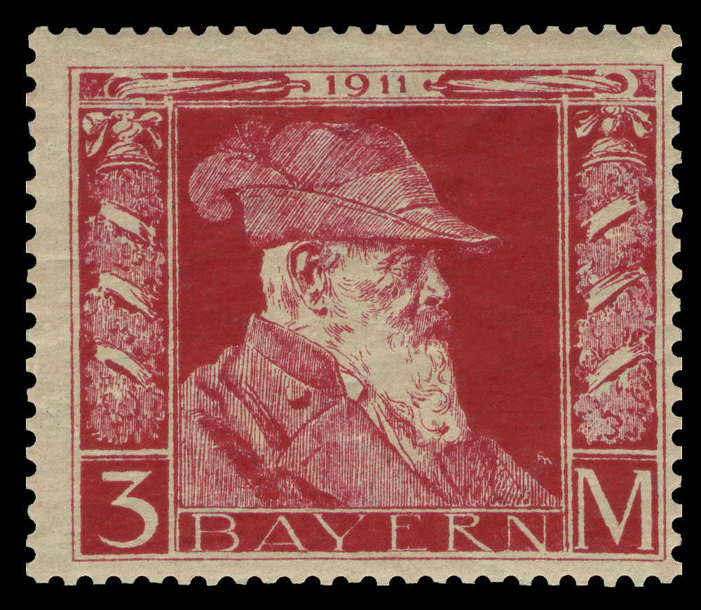 90th day of birth of Luitpold, Prince Regent of Bavaria (1821-1912) Graphics by von Kaulbach Ausgabepreis: 3 Mark First Day of Issue / Erstausgabetag: März 1911 Michel-Katalog-Nr: 88 (Altdeutschland (Bayern))